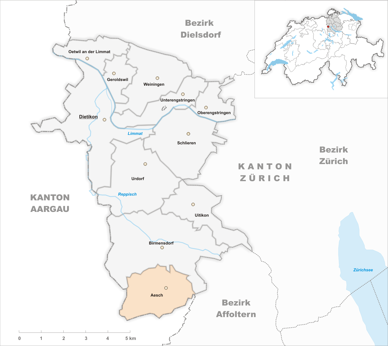 Municipality Aesch